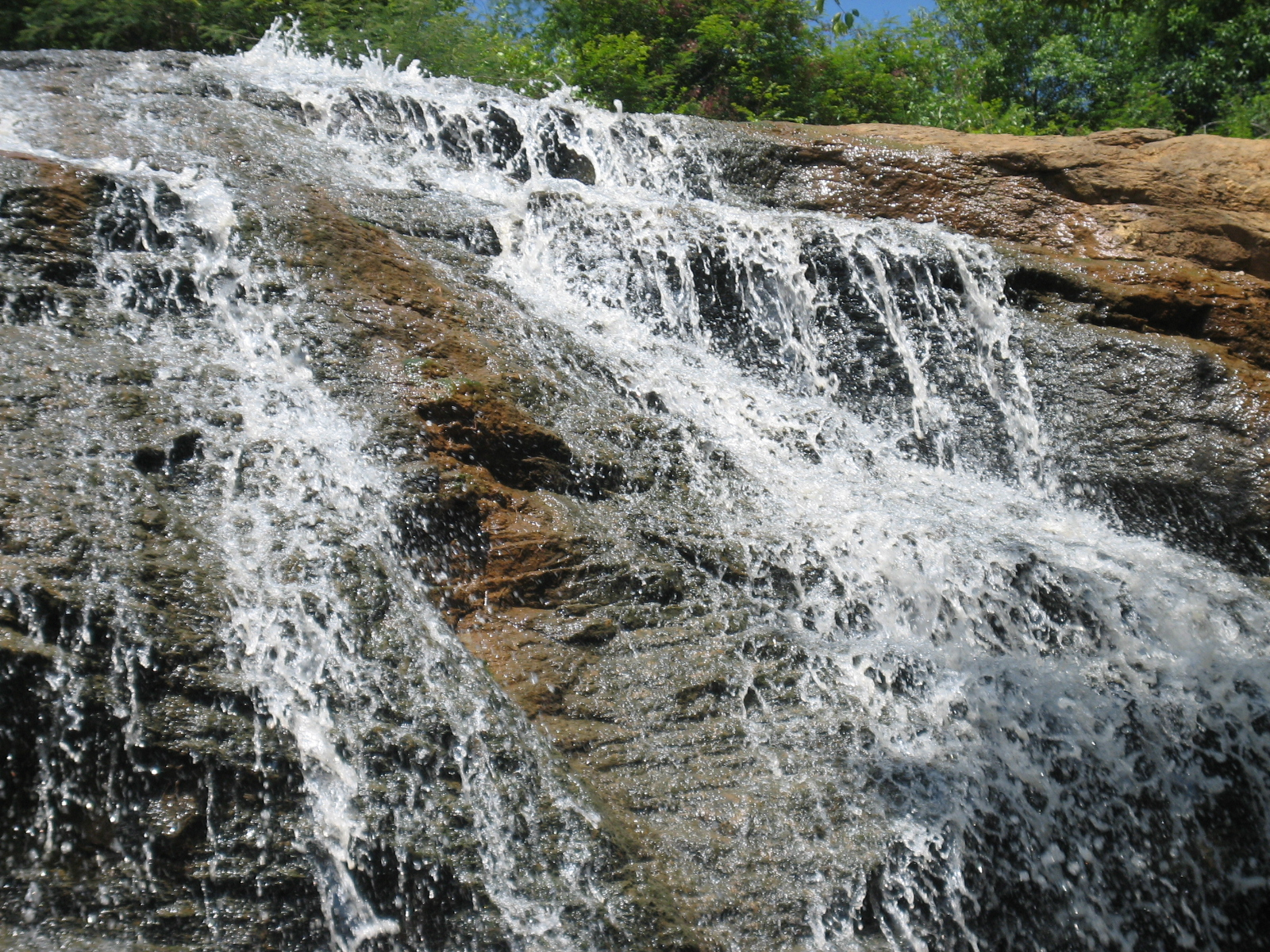 Thottikallu Falls, also knows as TK Falls or SwarnaMukhi water falls